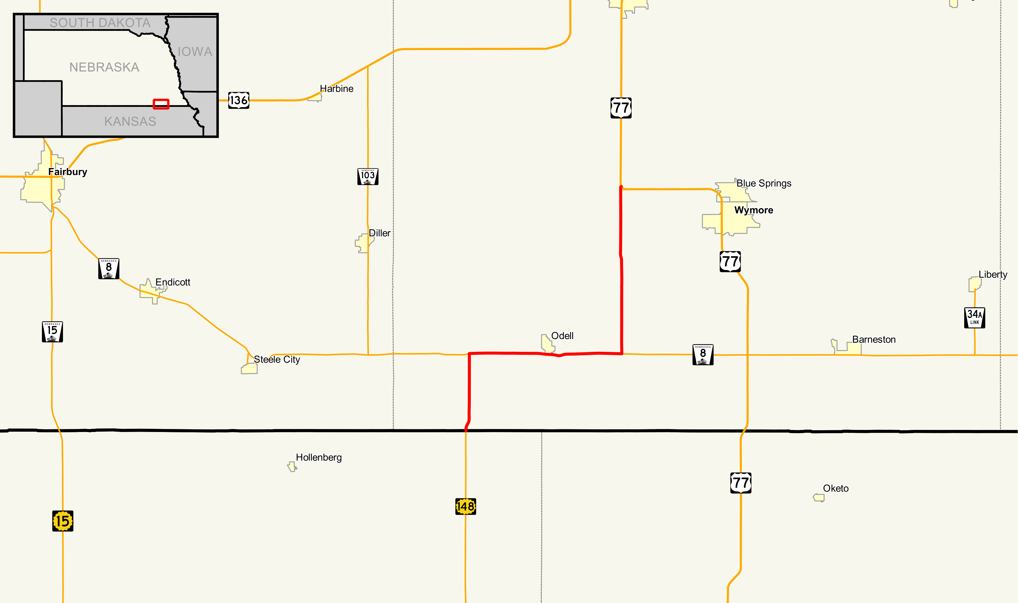 Map of Nebraska Highway 112 Data Sources: Nebraska Highways - - Dec 2016 Nebraska County Boundaries - - Dec 2016 Nebraska City Boundaries - - Dec 2016 This PNG graphic was created with QGIS